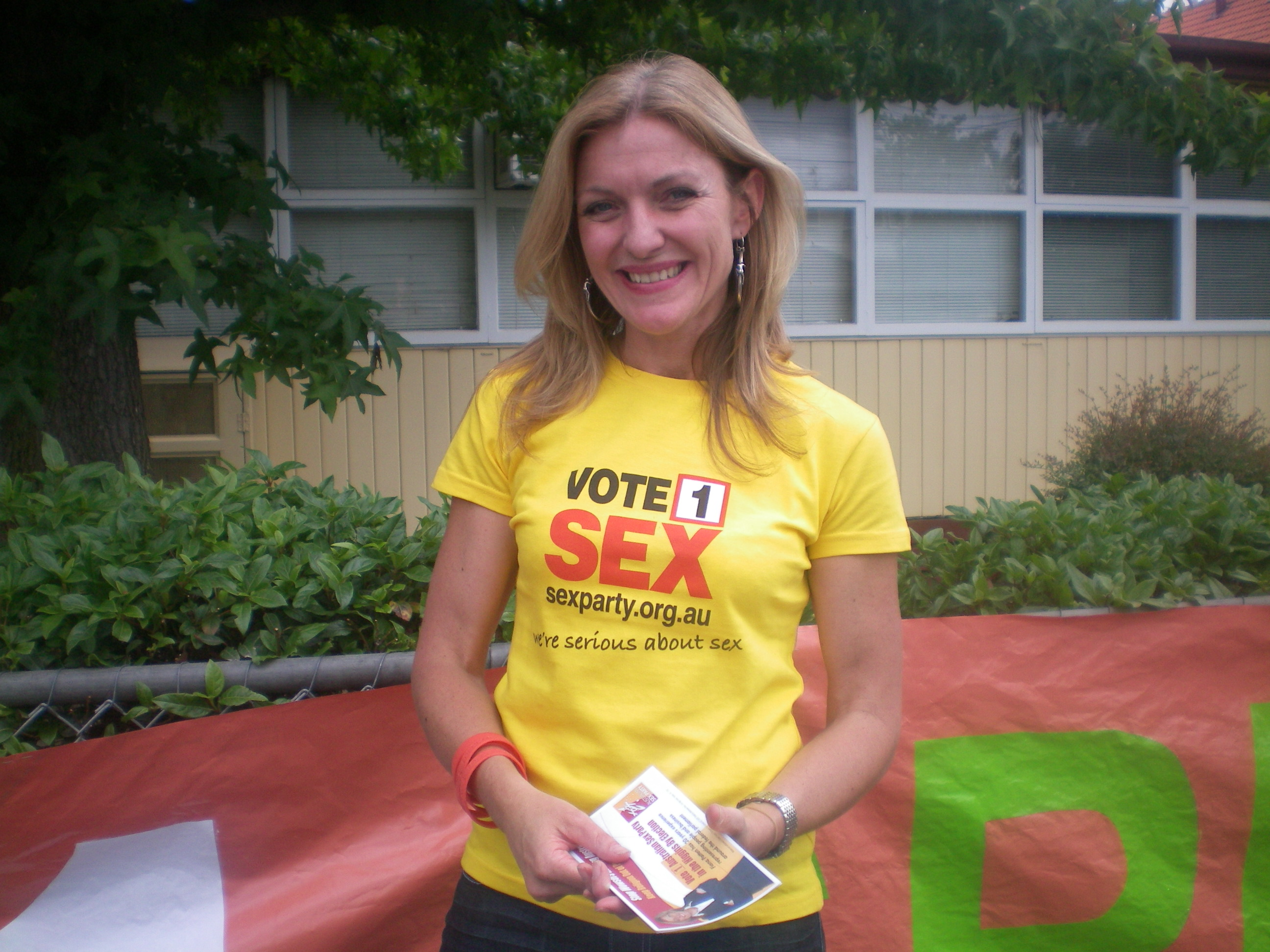 Fiona Patten campaigning during the 2009 Higgins by-election.